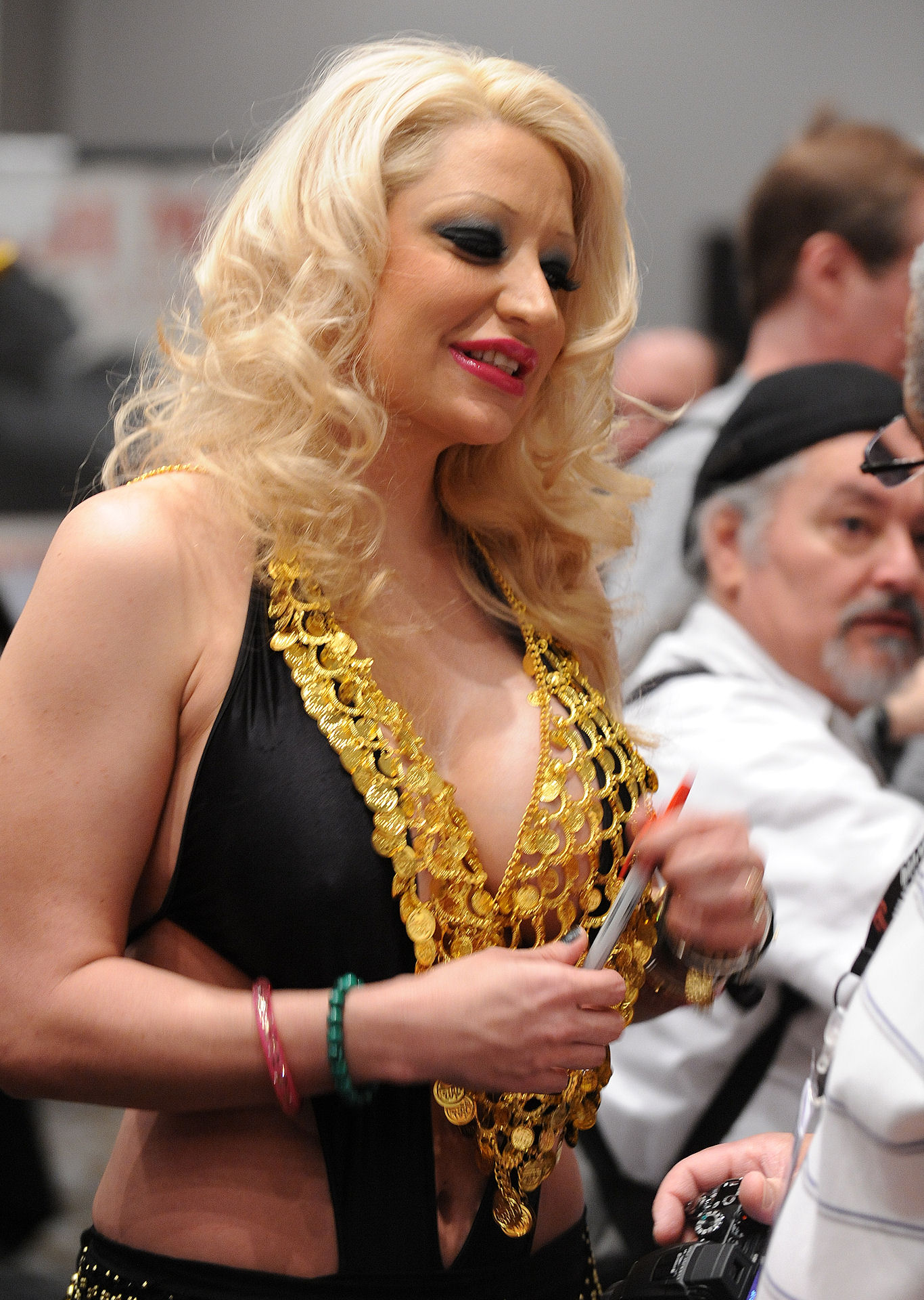 Lizzy Borden at AVN Adult Entertainment Expo 2012